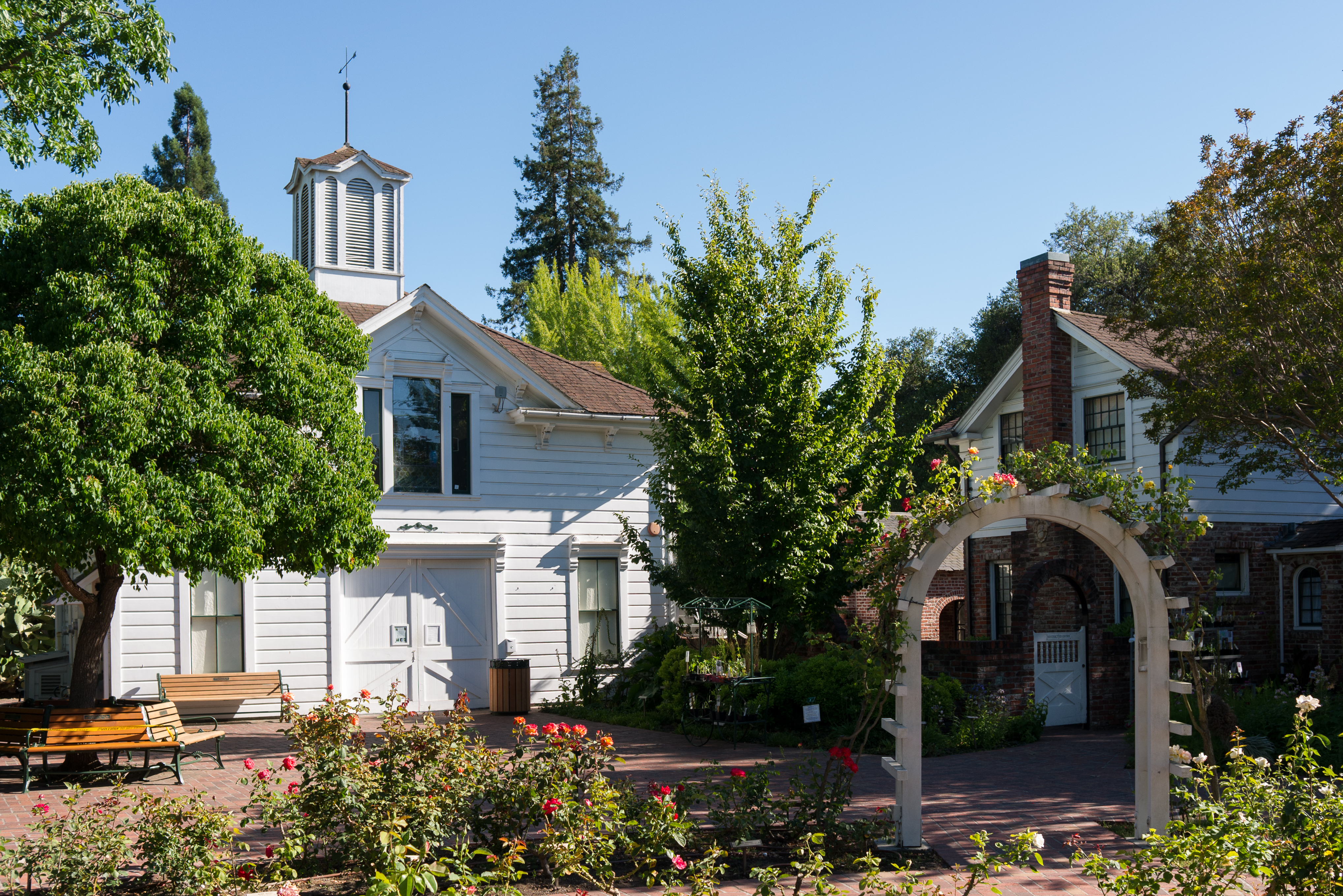 Luther Burbank Home and Gardens, Santa Rosa, California, as seen in June 2012.